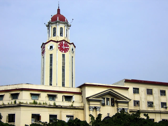 Manila City Hall (Taken by Jhun Taboga)